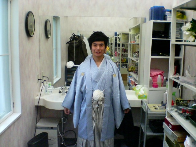 Japanese Haori & Hakama (紋付羽織袴), traditional Japanese formal wear.